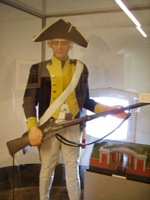 Fortified city museum at Naarden (Netherlands)